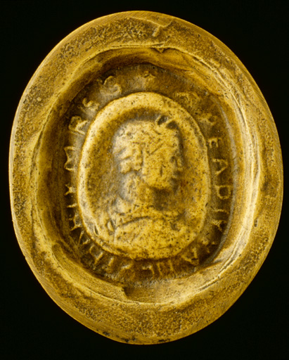 Seal of Lothair II (cast).